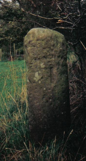 Photograph taken for this article by myself